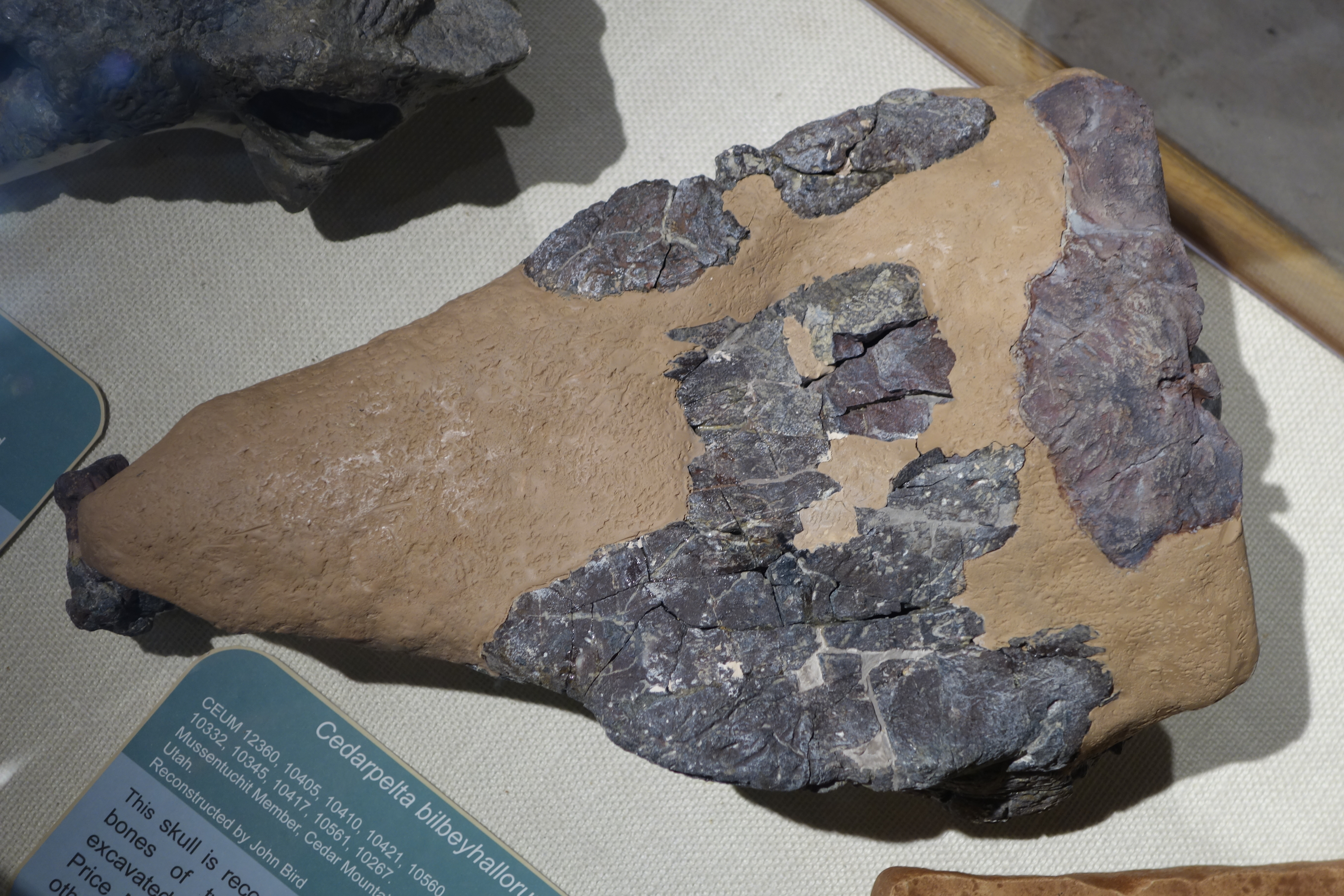 Cedarpelta bilbeyhallorum skull, top view, reconstructed from two partial individuals excavated in 1997, 14 miles southeast of Price. Skull contains 70% of original fossil bone. On display at the USU Eastern Prehistoric Museum, Price, Utah (US).